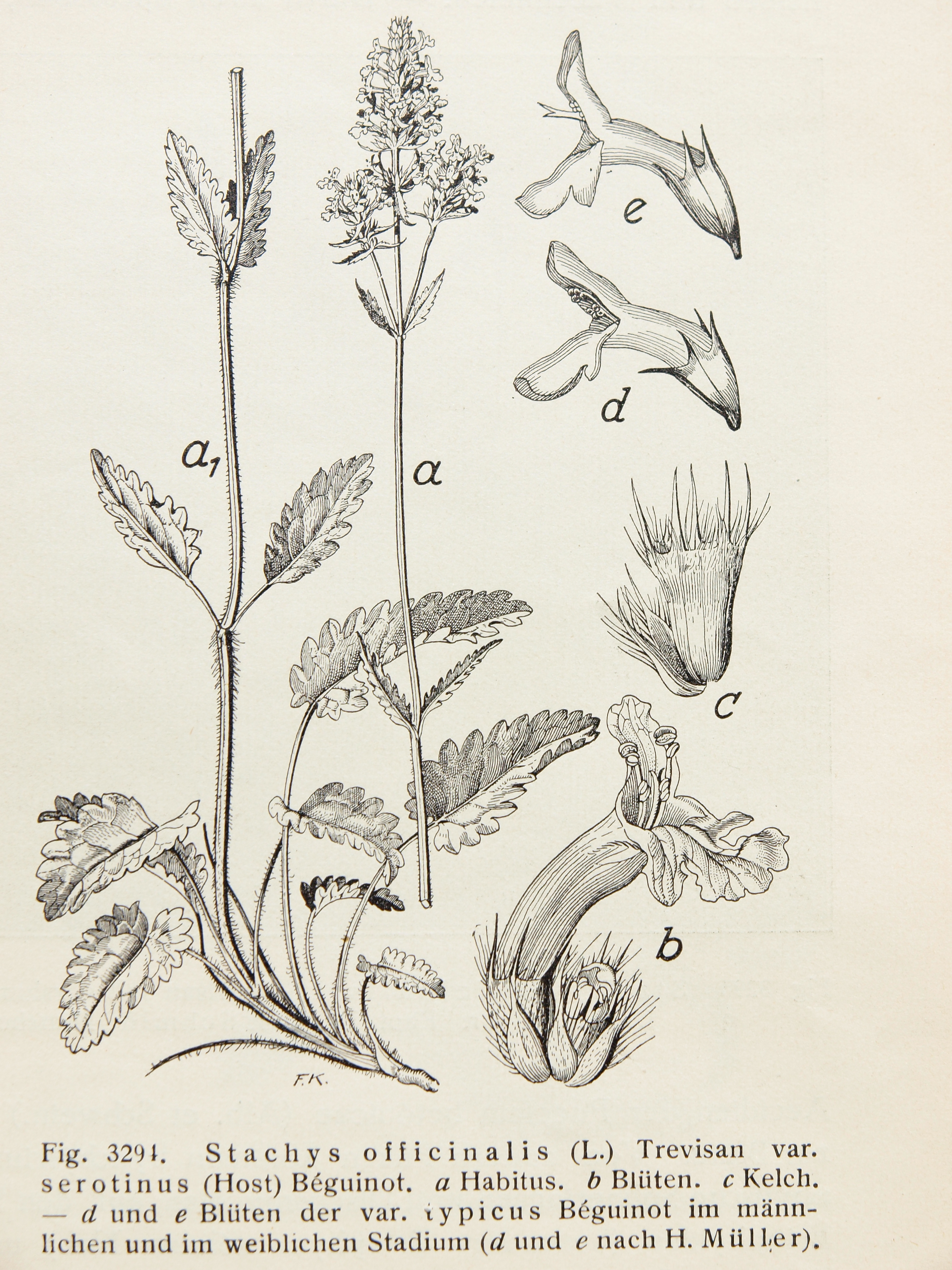 Hegi Betonica serotina as Stachys officinalis var serotinus